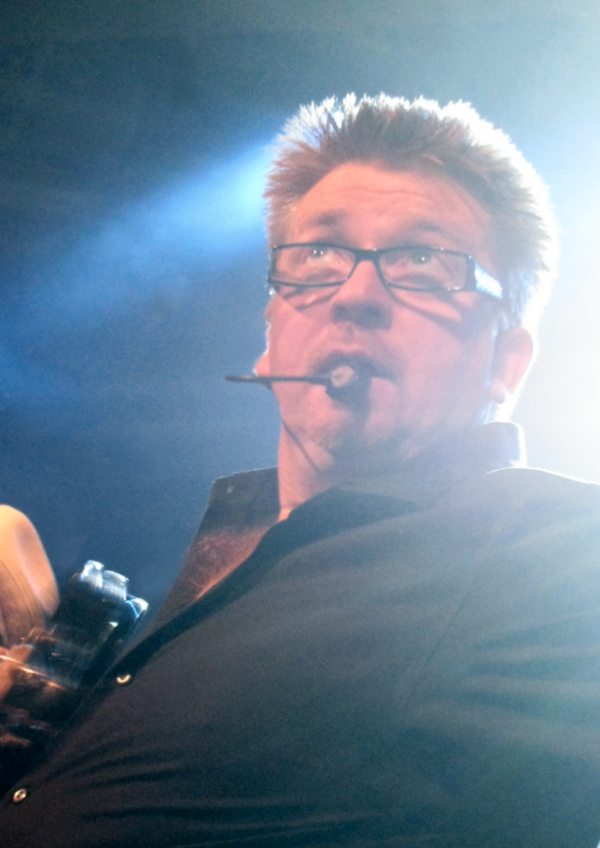 Vince Ditrich, drummer of "Spirit of the West". Taken during a Stampede party at Flames Central in Calgary, Alberta Canada.